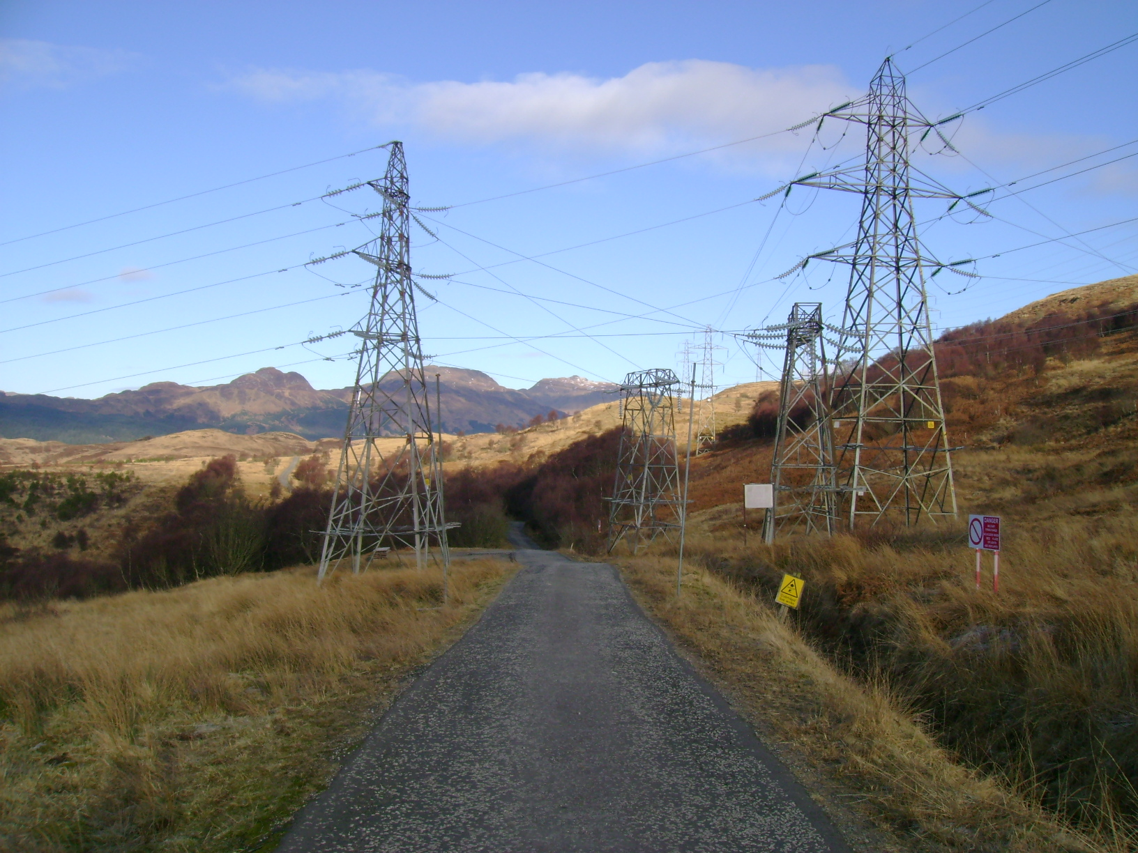 Military access road A military access road in the Garelochhead Training Area passing under power lines.